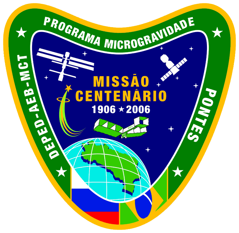 This simple and colorful design presents National flags of Russia and Brazil. First Brazilian cosmonaut/astronalt Marcos Pontes.